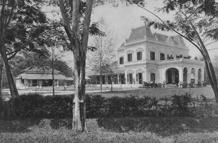 The residency of the governor